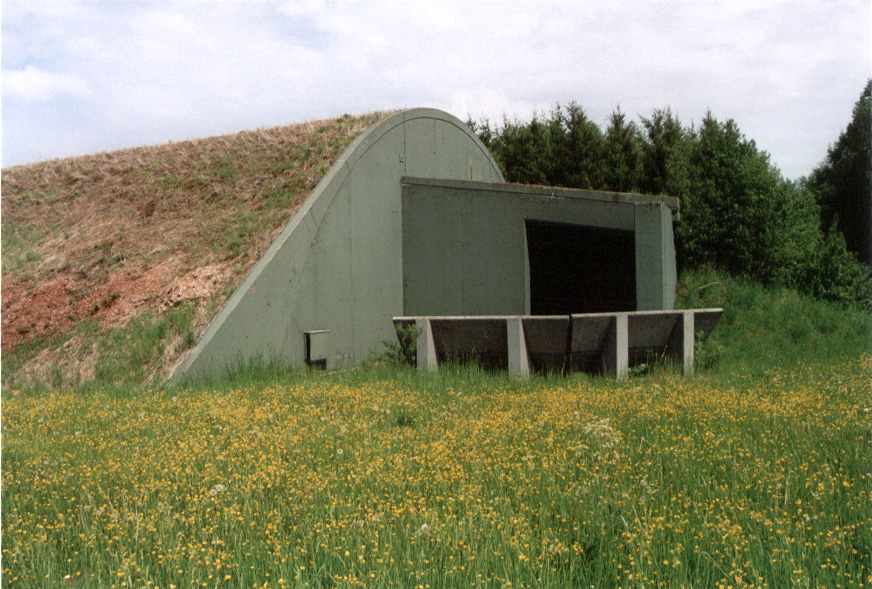 Exhaust outlet of the German HAS - Tornado Version